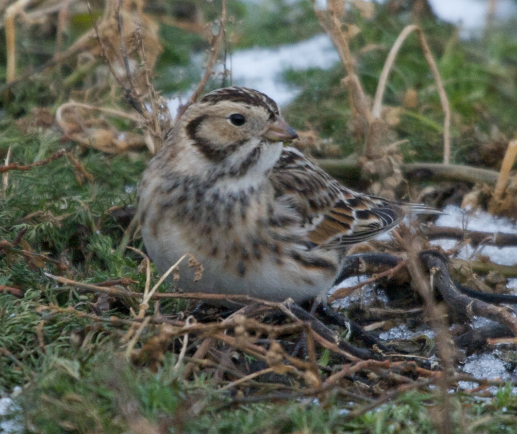 Calcarius lapponicus in winter plumage. Gull Island, Presqu'ile Provincial Park, Northumberland, Ontario, 43°59'01"N 77°44'20"W.